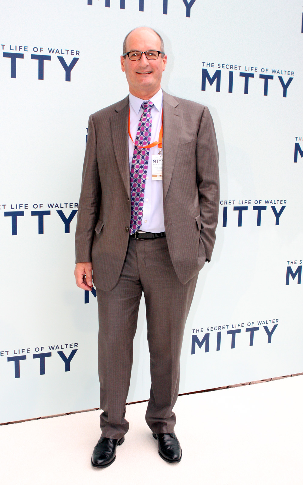 Kochie aka David Koch (television presenter) at The Secret Life Of Walter Mitty Premiere in Sydney, Australia